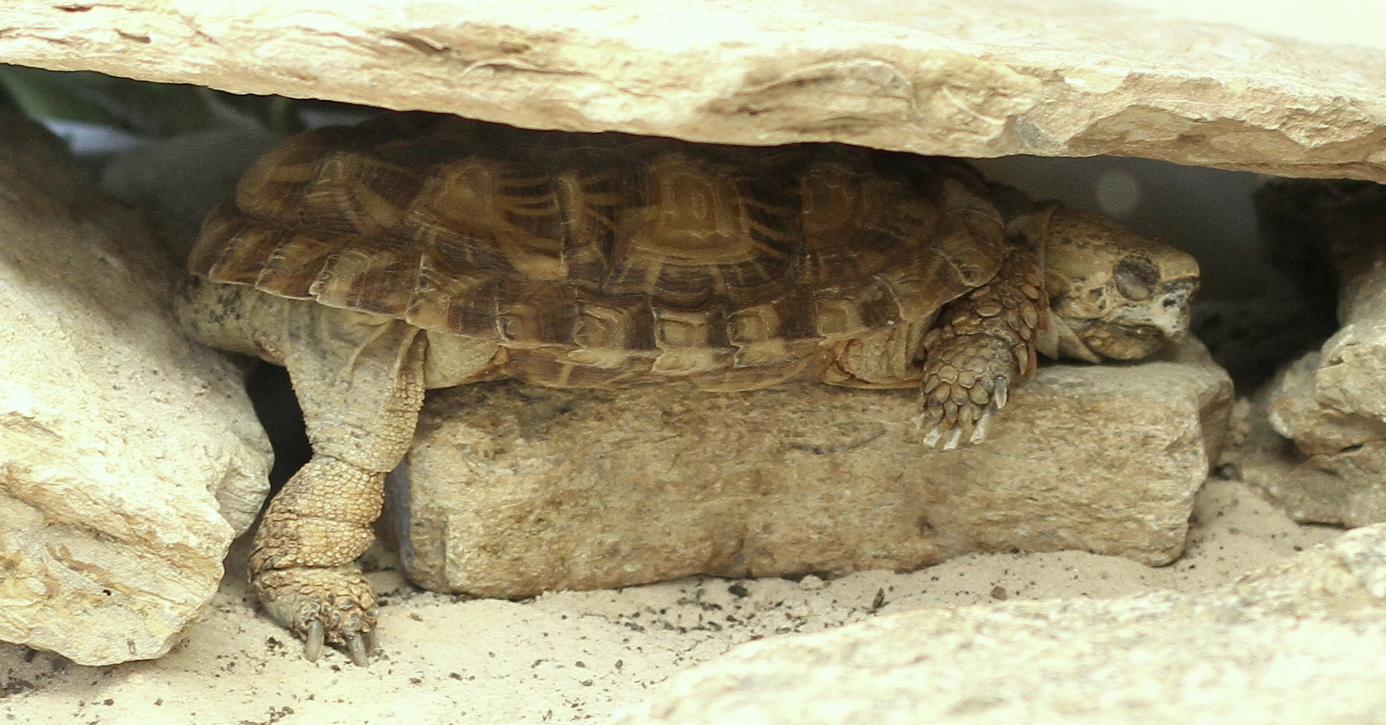 Pancake Tortoise - Malacochersus tornieri - taken at the Cincinnati Zoo.